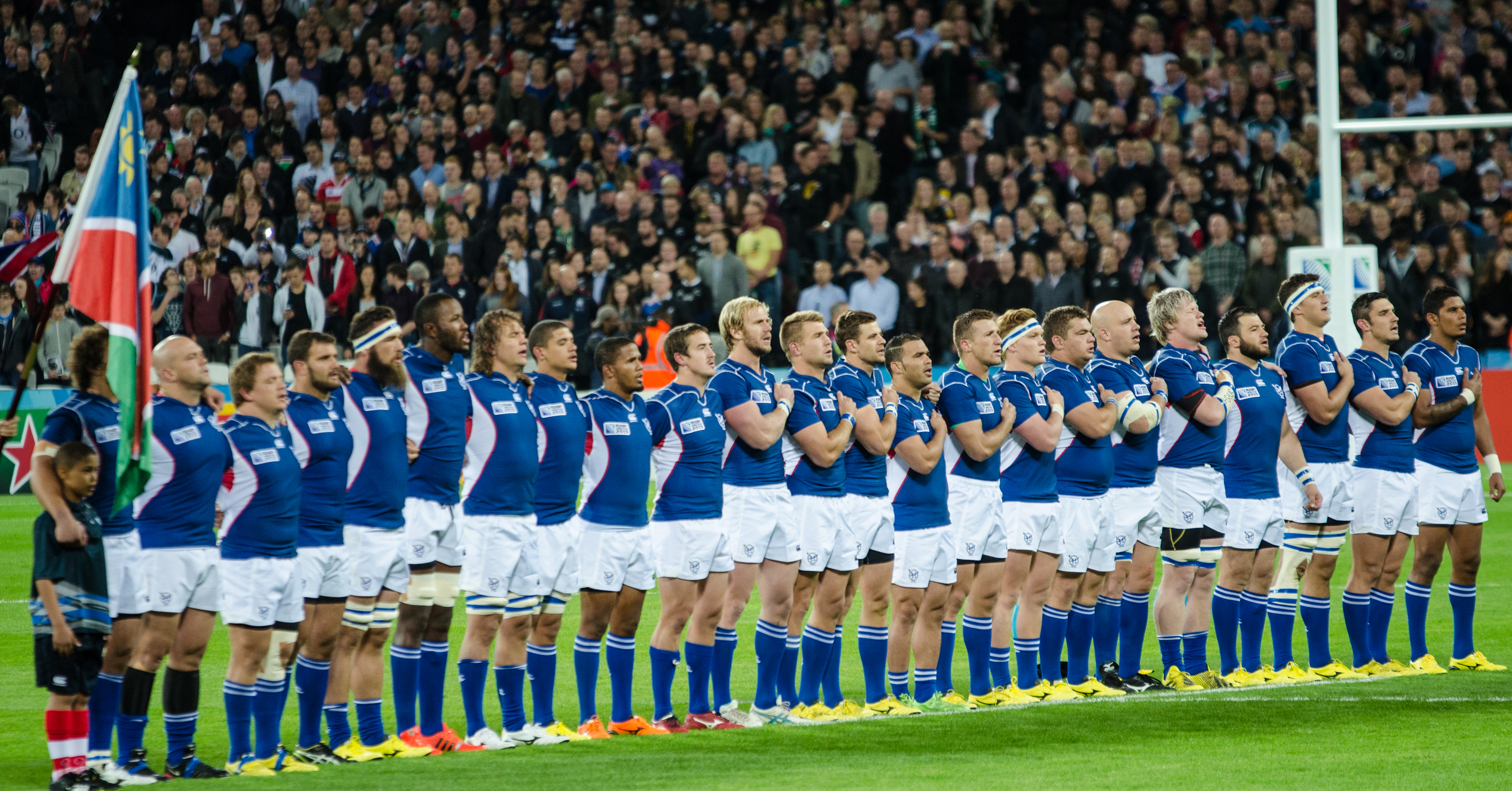 Namibia national rugby union team before the 2015 Rugby World Cup match against New Zealand played at the Olympic Stadium in London.